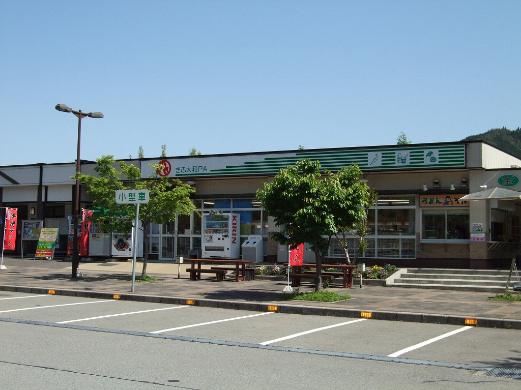 Gifu-Yamato Parking Area on the Tokai-Hokuriku Expressway inbound line